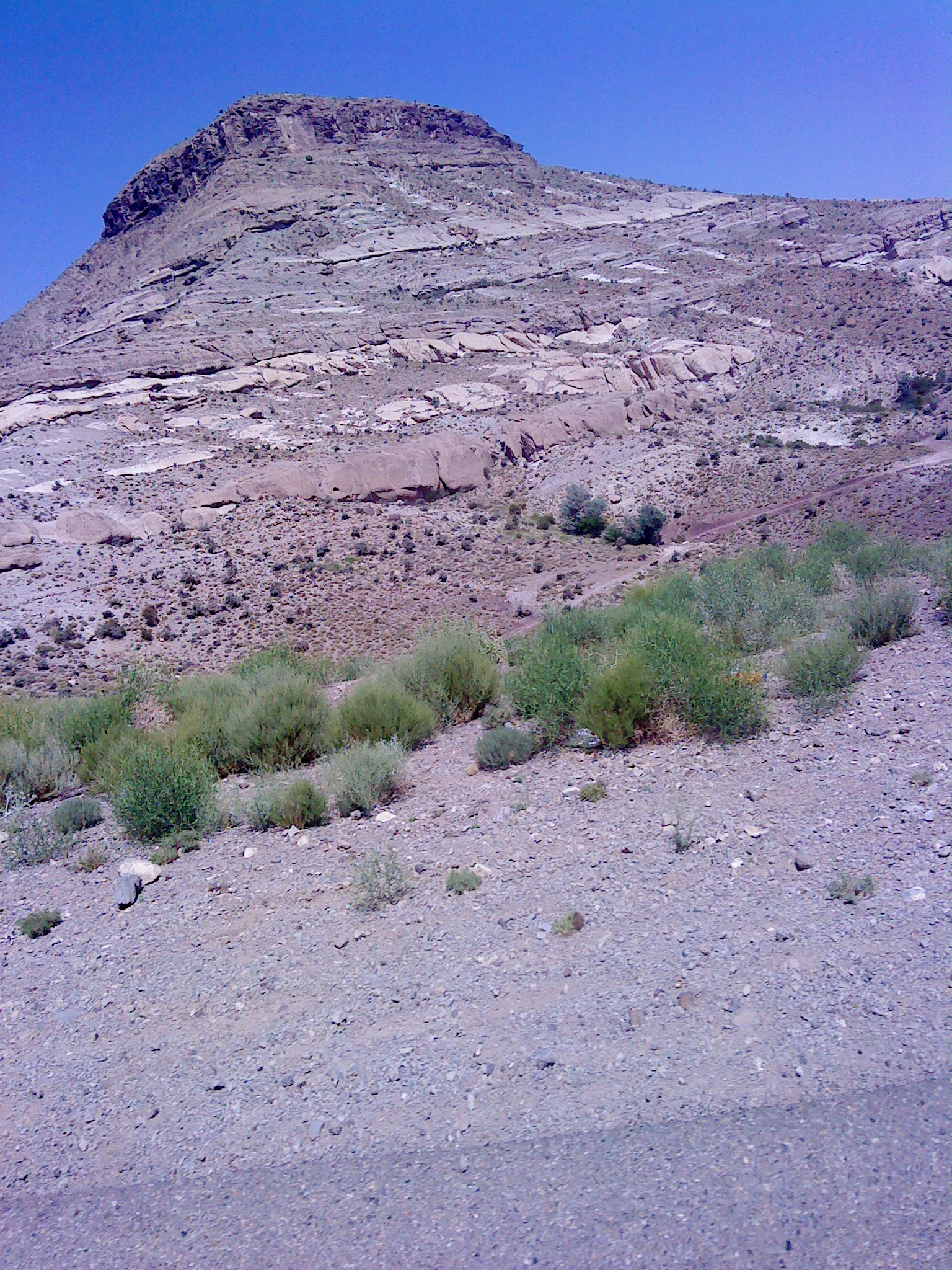 sirab raviz